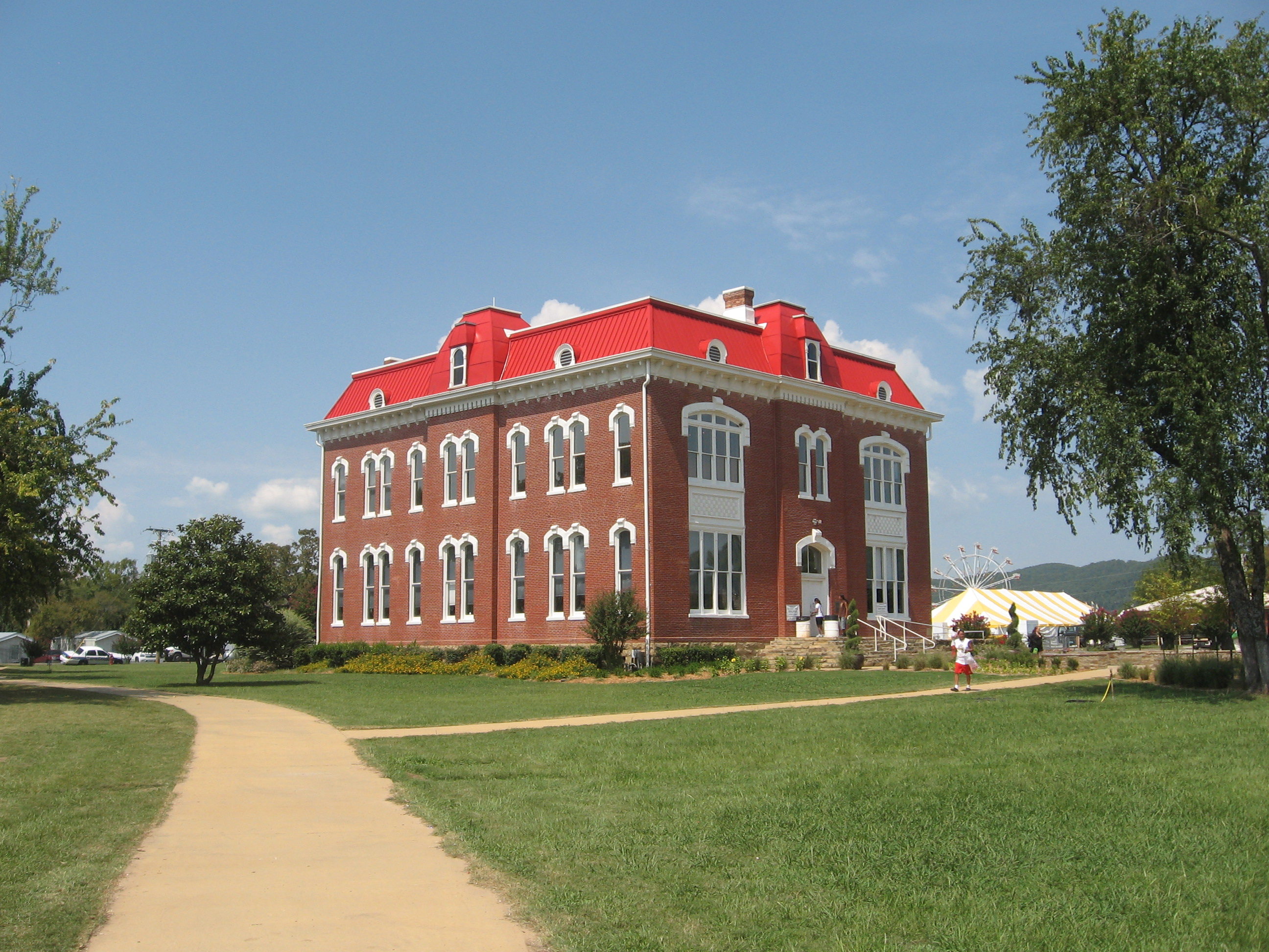 The Choctaw Capitol Museum and Judicial Department, Tuskahoma, Oklahoma.